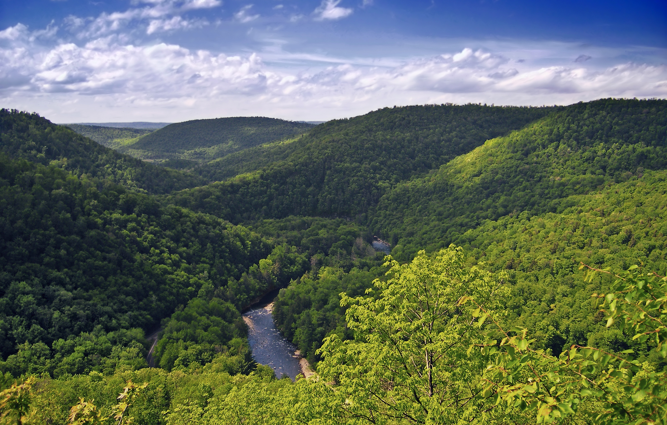 World's End State Park, Sullivan County. Taken in June 2008. Another view, uncropped and showing more sky, here.